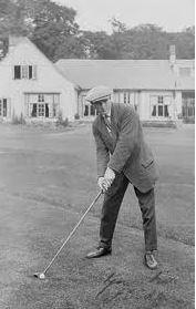 A circa 1910 photograph of golf professional J. Douglas Edgar. He was murdered in Atlanta, Georgia, in 1921 and the case has never been solved.